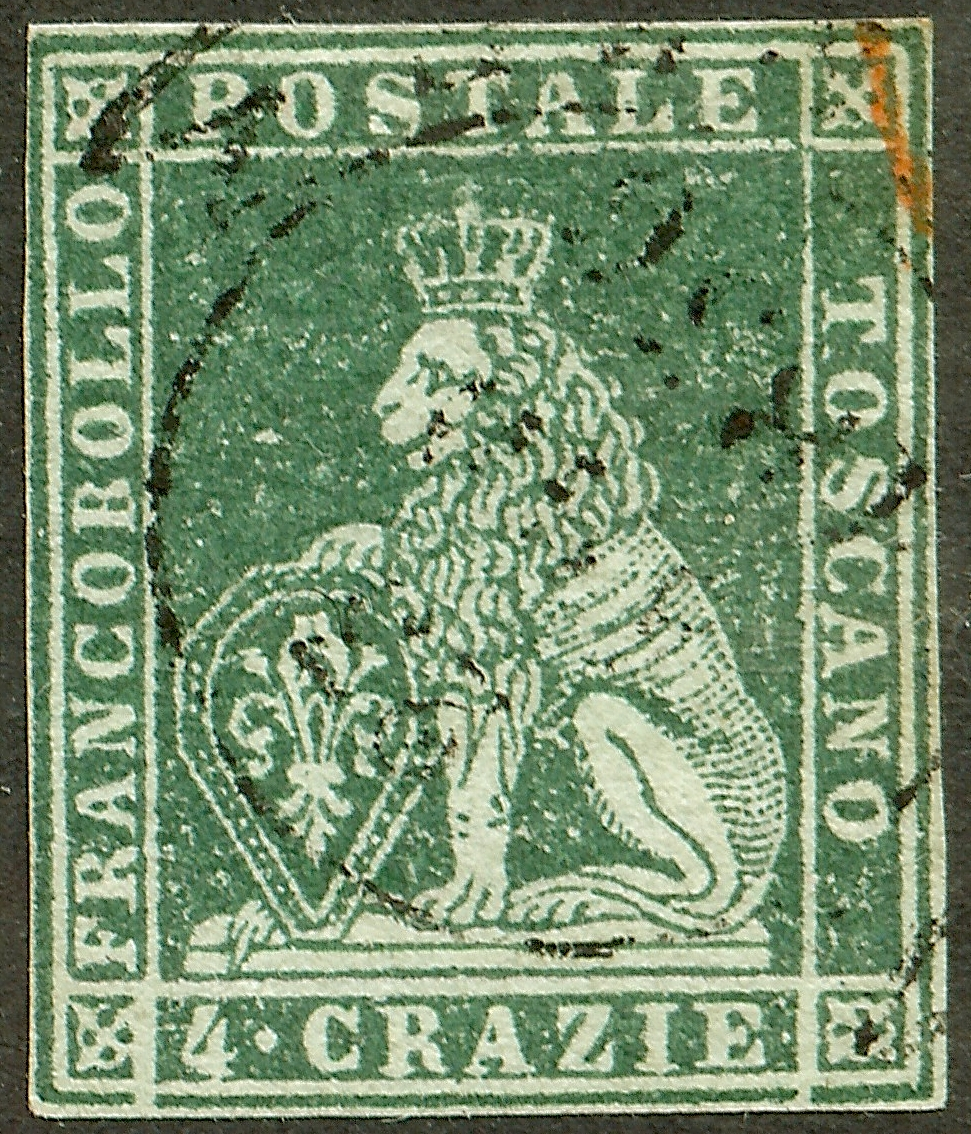 This is a scan I made of a used postage stamp from Tuscany, issued in 1851, (Scott Catalog no. 6) and consequently not subject to any copyright world wide.